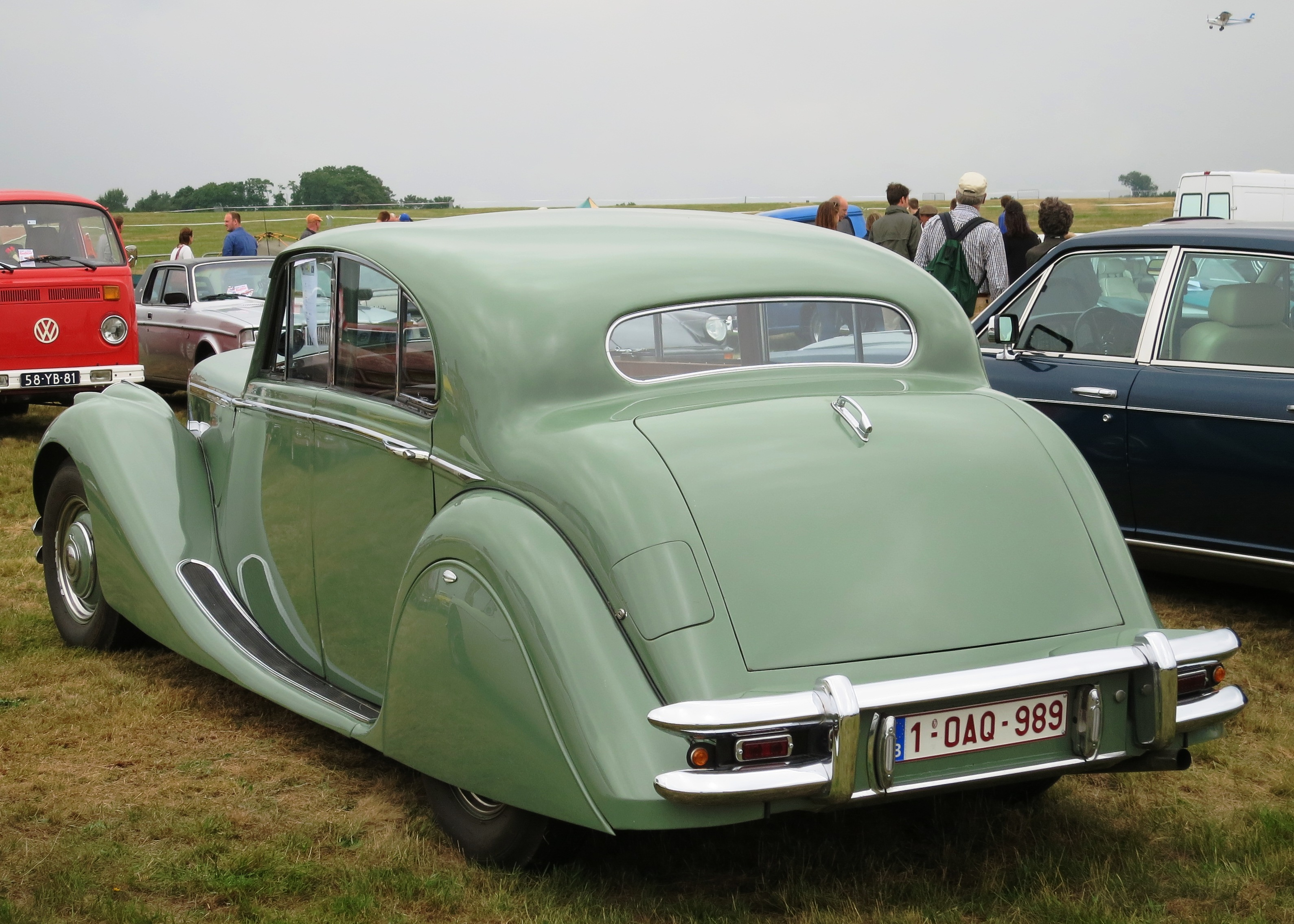 Jaguar Mark V in Belgium